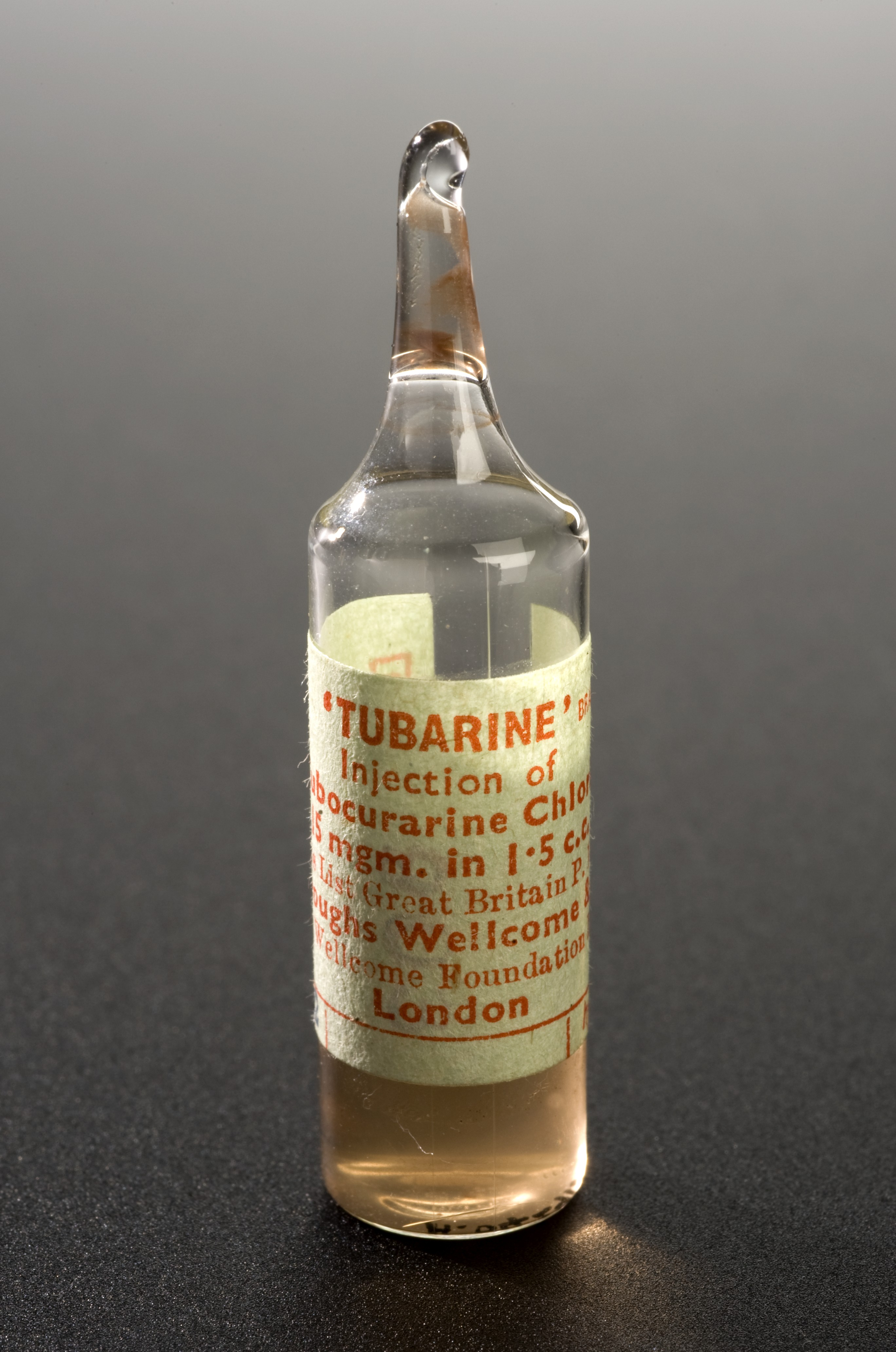 Ampoule of tubocurarine chloride. Front view. Grey background. Wellcome Images